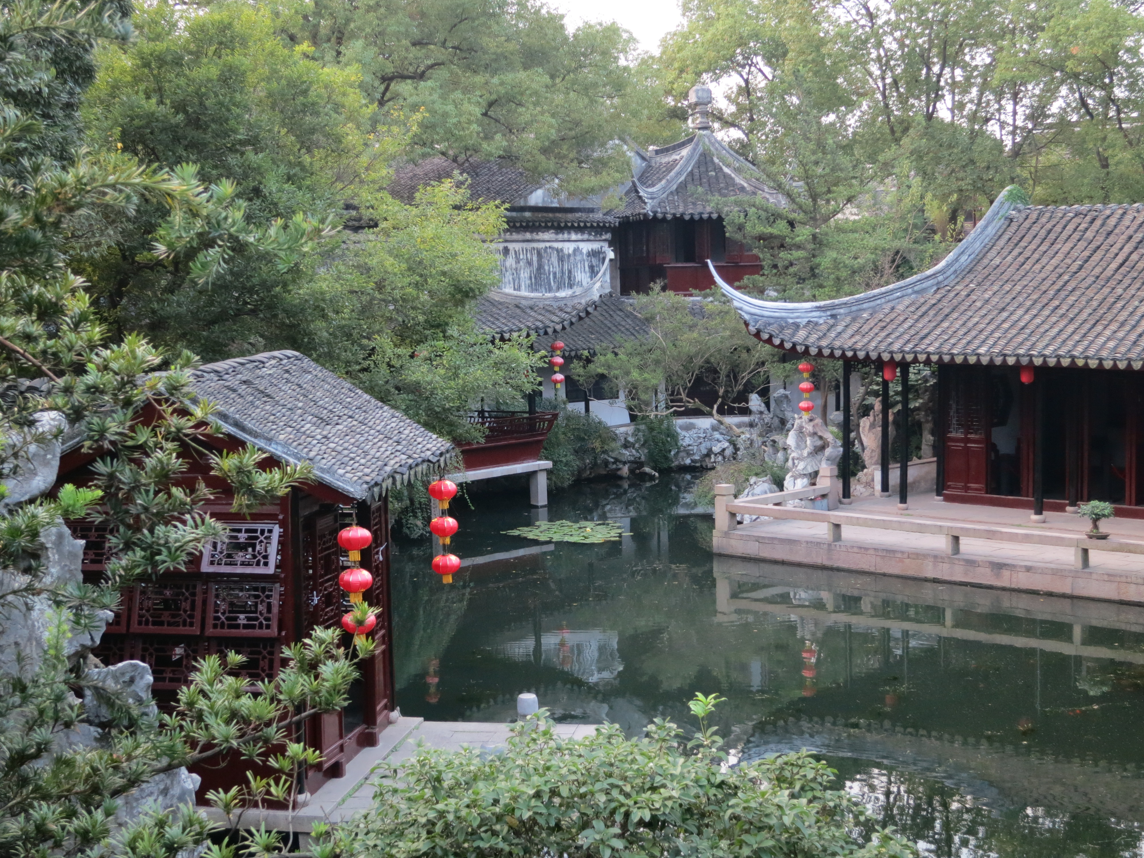 View of the pond in he West part of the Retreat & Reflection Garden (退思园) in Tongli, Suzhou, Photo by Christian Gänshirt 2014